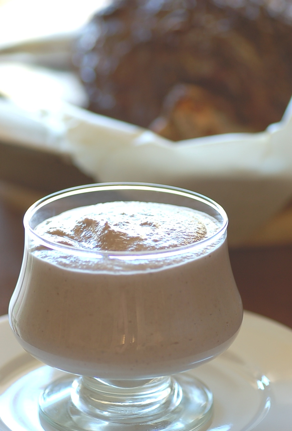 Walnut sauce (also known as walnut paste) is a food paste made primarily from walnuts.